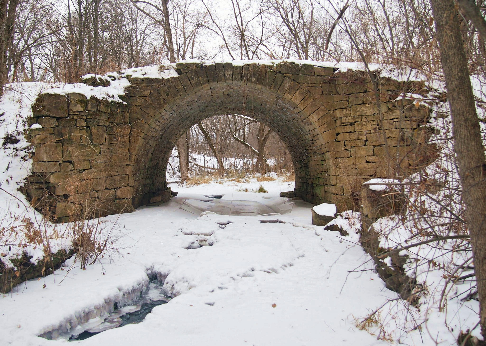 Point Douglas–St. Louis River Road Bridge, Stillwater Township, Minnesota, USA. Viewed from the east. Bridge crosses over Brown's Creek.